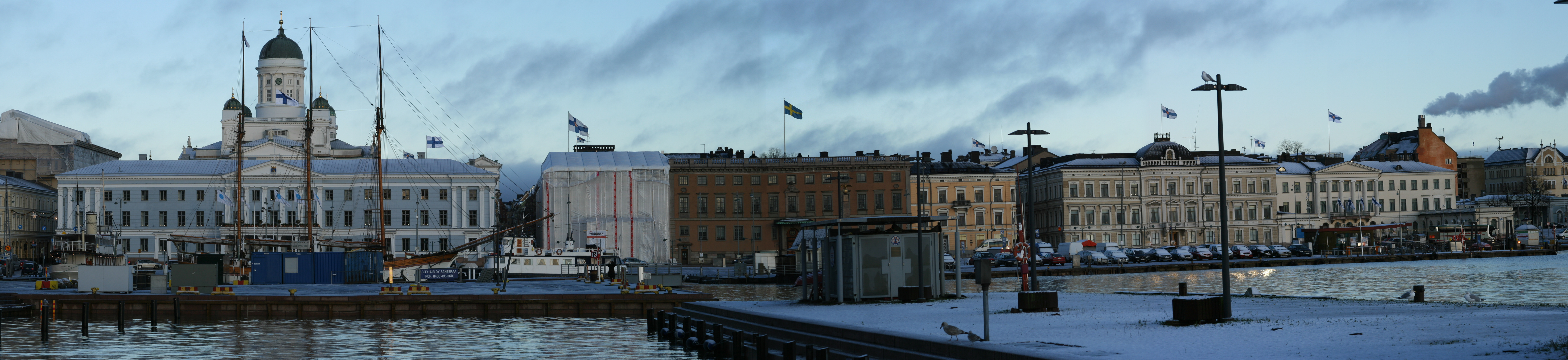 Pohjoisesplanadi, a street in Helsinki, Finland. Panorama on independence day 2011. Left: Helsinki City Hall, behind it the tower of the Lutheran Cathedral, the Govinius House, the Swedish Embassy in Helsinki, Lampa House, the building of the Supreme Court of Finland and Presidential Palace.